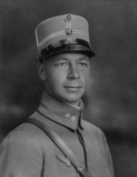 Portrait of Eiliv Austlid, born 6 May 1899, dead 15 April 1940